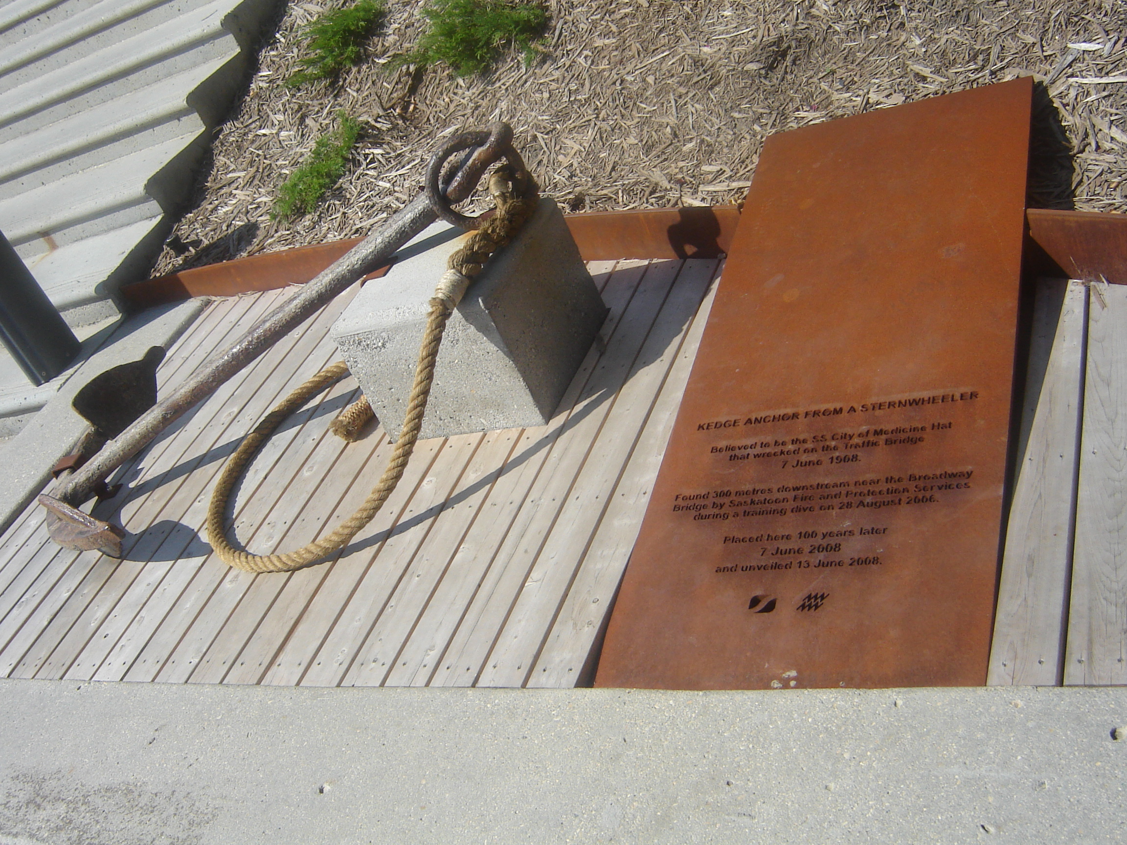 Kedge Anchor from a Sternwheeler. Believed to be the S.S. City of Medicine Hat that wrecked on the Traffic Bridge 7 June 1908. Found 300 meters downstream near the Broadway Bridge by Saskatoon Fire and Protection Services during a training dive on 28 August 2006. Placed here 100 years later 7 June 2008 and unveiled 13 June 2008. River Landing photo taken near the Victoria or Traffic Bridge along the South Saskatchewan River taken in River Landing Central Business District, Saskatoon, Saskatchewan, Core Neighbourhoods SDA, Saskatoon